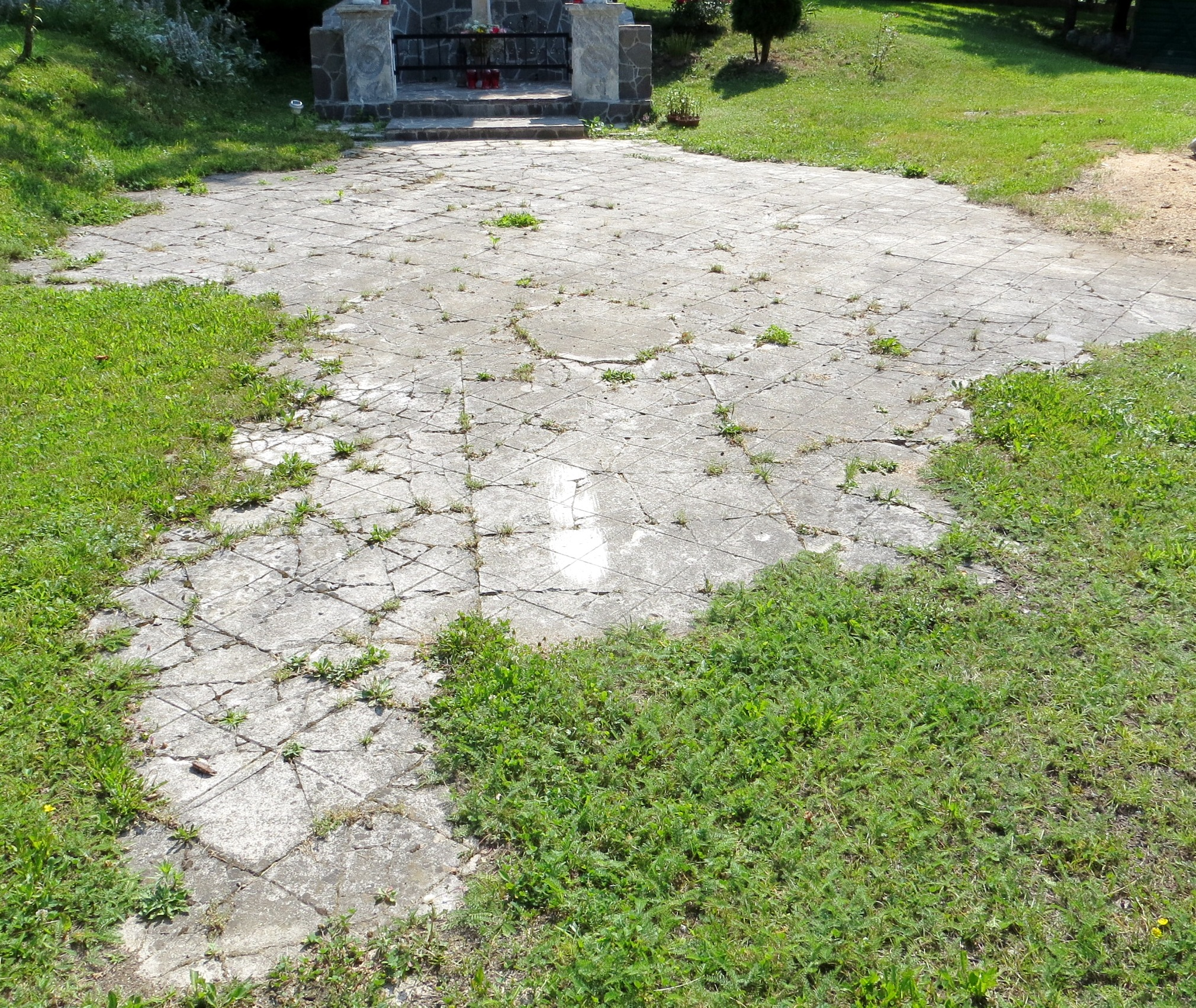 The site of the former church in Smuka, Municipality of Kočevje, Slovenia